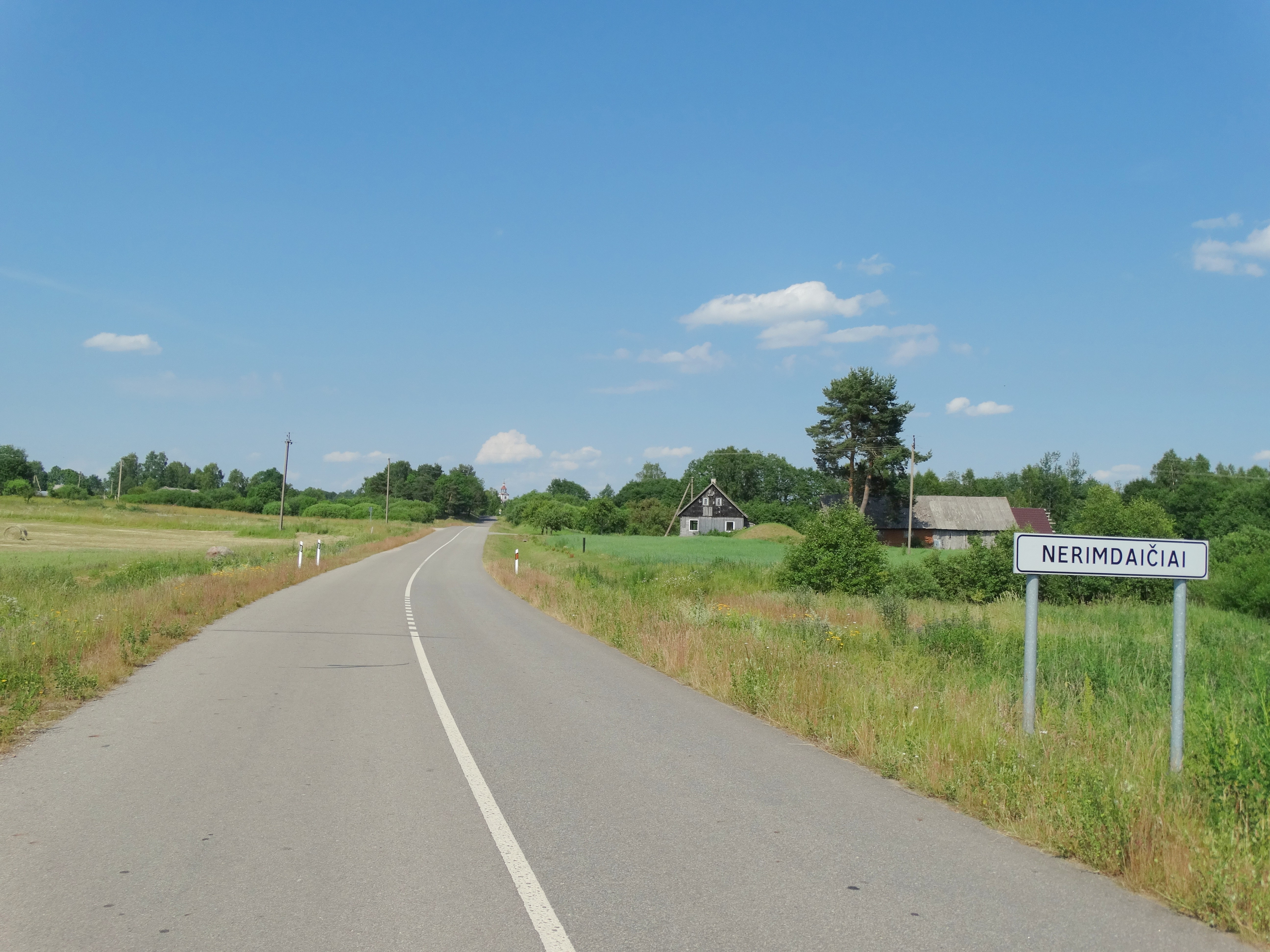 Nerimdaičiai, Telšiai district, Lithuania